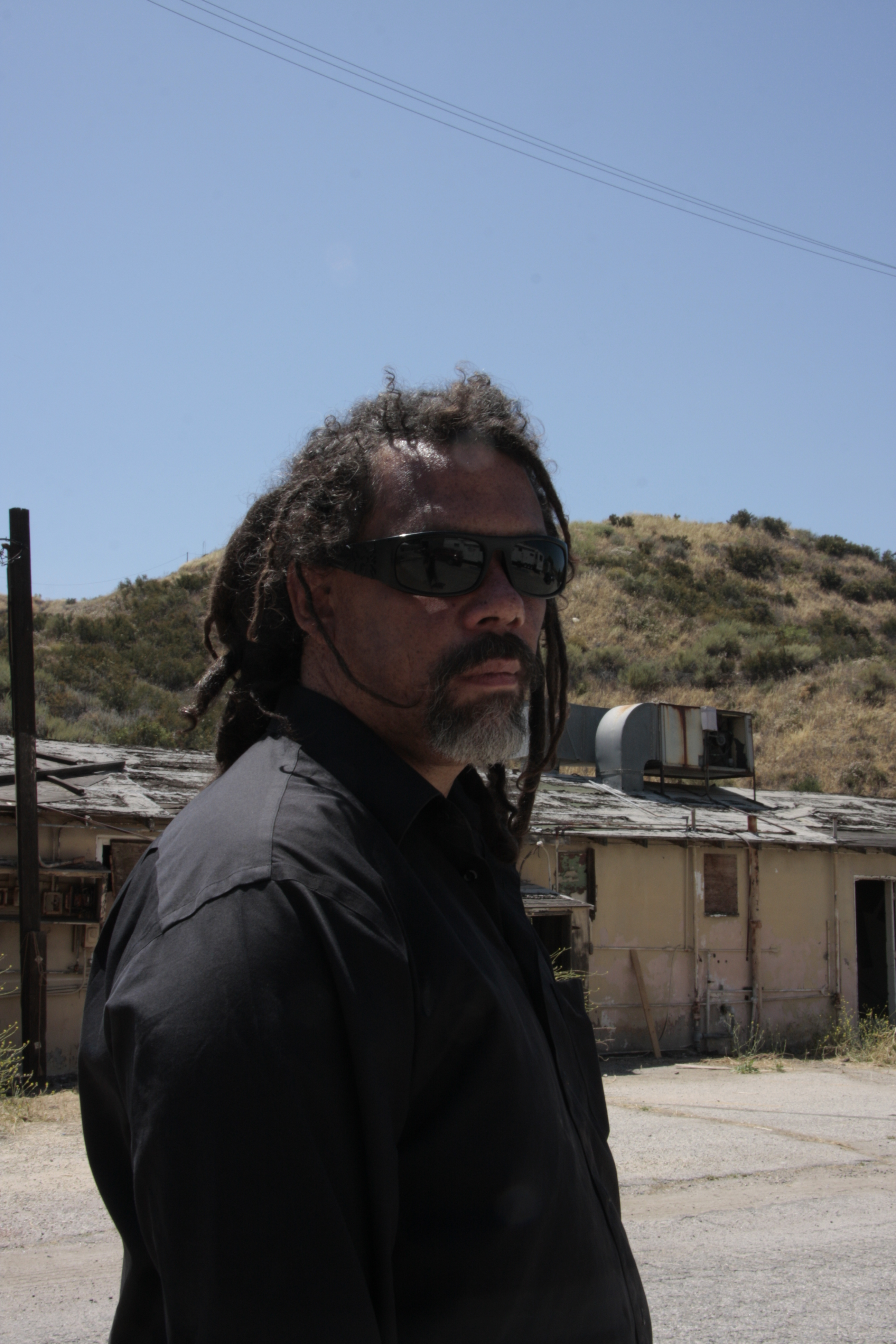 Hackett looking for obtanium.